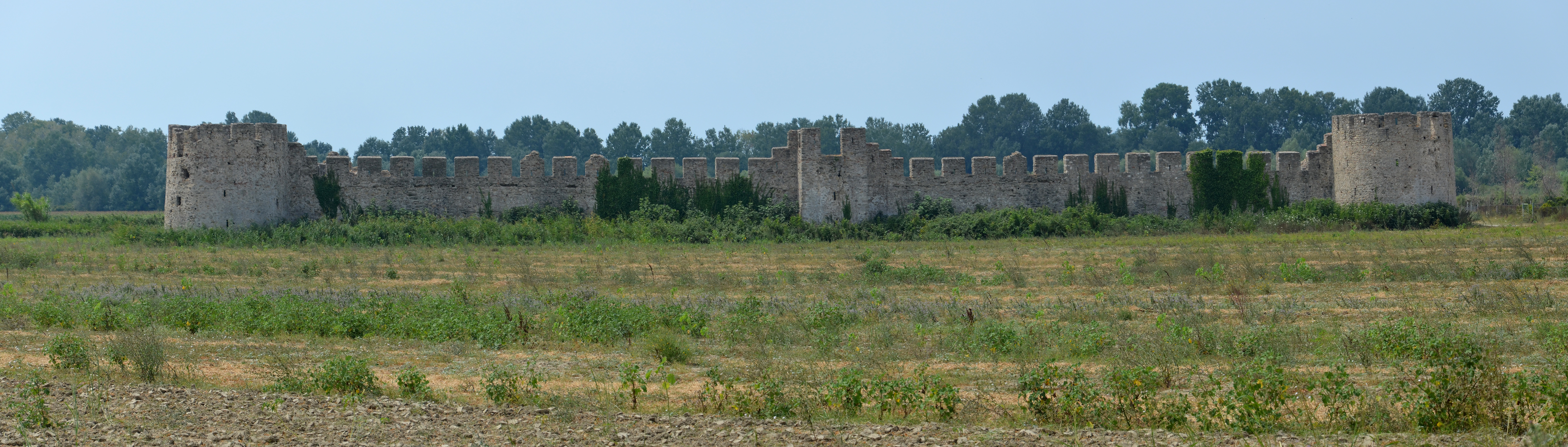 The Bashtova Castle in Albania, the northeastern wall from the road